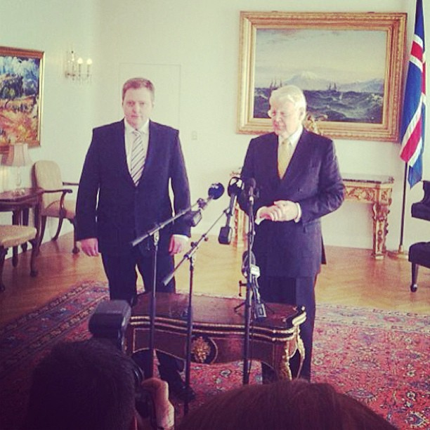 Sigmundur Davíð Gunnlaugsson,chairman of the Progressive Party and Ólafur Ragnar Grímsson, President of Iceland, in April 2013